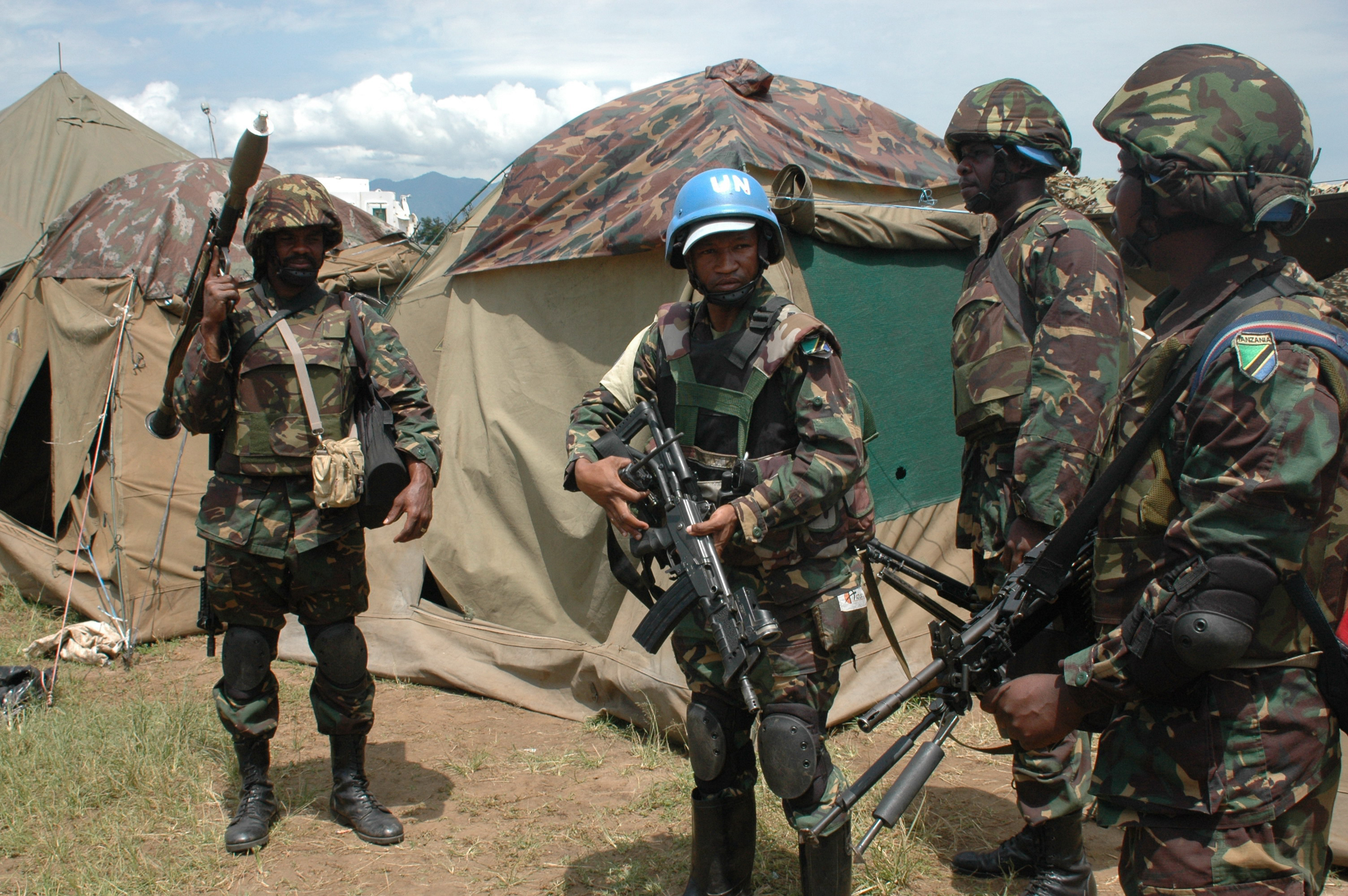 Peacekeepers from the UN Intervention Brigade deployed in the city of Kiwanja, 75 km north of Goma, Rutshuru territory. This deployment is part of the repositioning of the MONUSCO Force, to ensure the effective protection of civilians in the territory of Rutshuru.